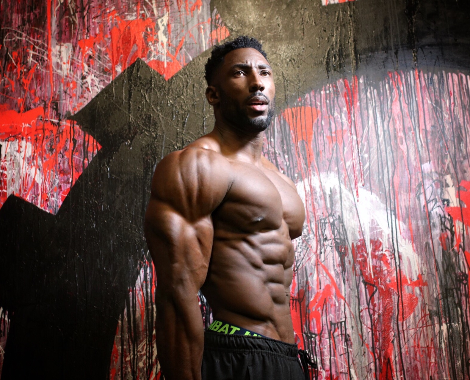 Ej Nduka